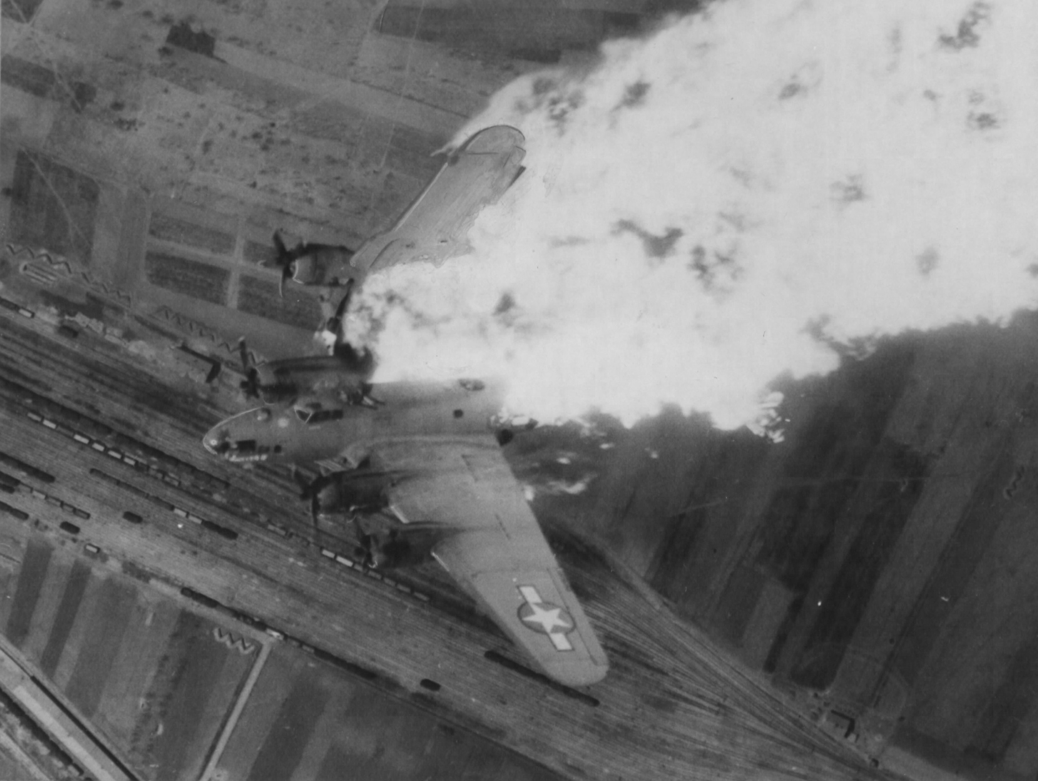 B-17 flying fortress hit by AAA fire over Nis yards, Serbia